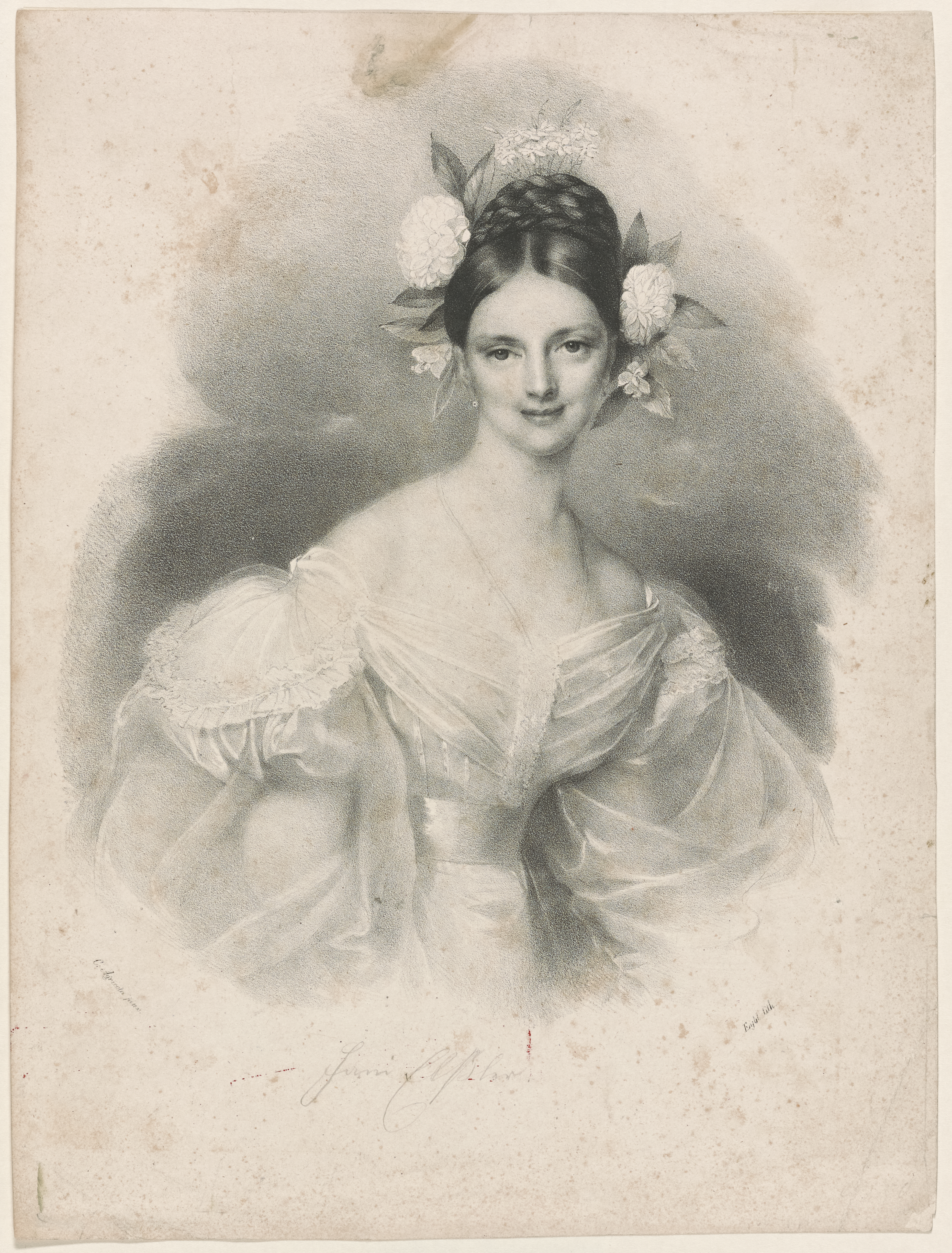 Half-length, to front, wearing a low-cut gown with puff sleeves. Flowers in hair.